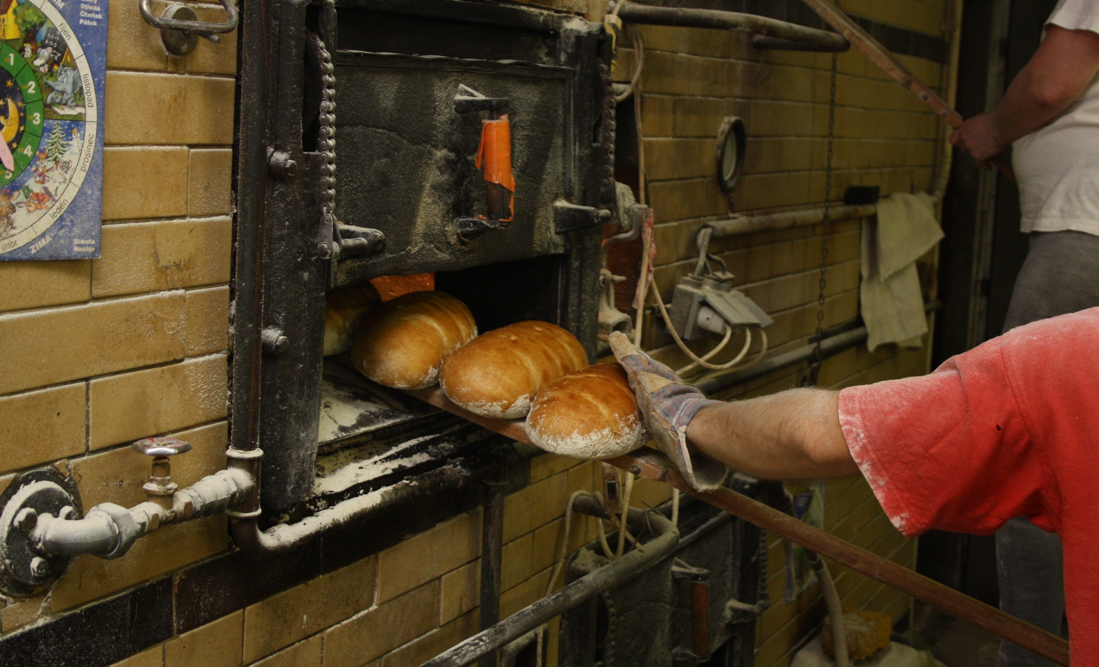 Production process of bread, Czech Republic This photograph was taken with a DSLR from WMCZ's Camera grant. This picture was taken and/or got within the scope of the 'Acquiring scientific and specialized pictures' grant.